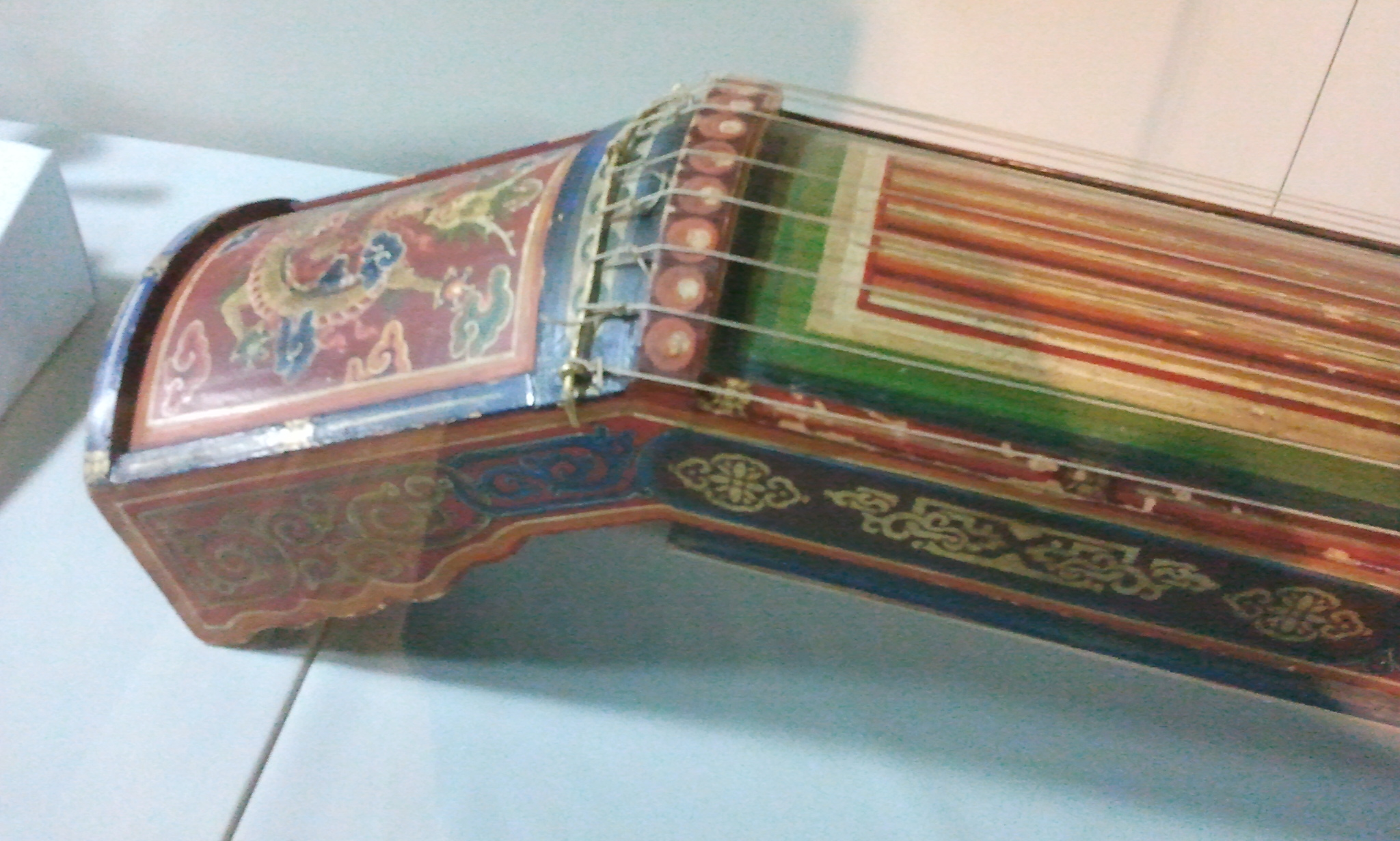 Really old Mongolian yatga. Kept in the National Museum of Mongolia.